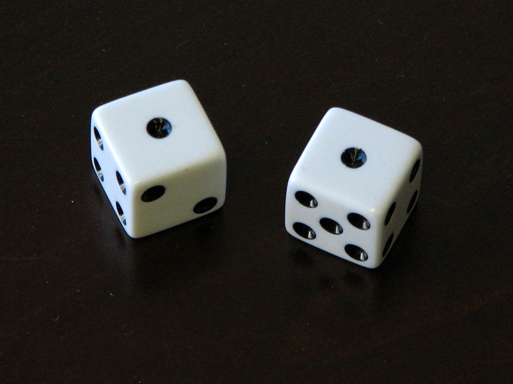 Two dice rolled to show two 1s - "snake eyes".